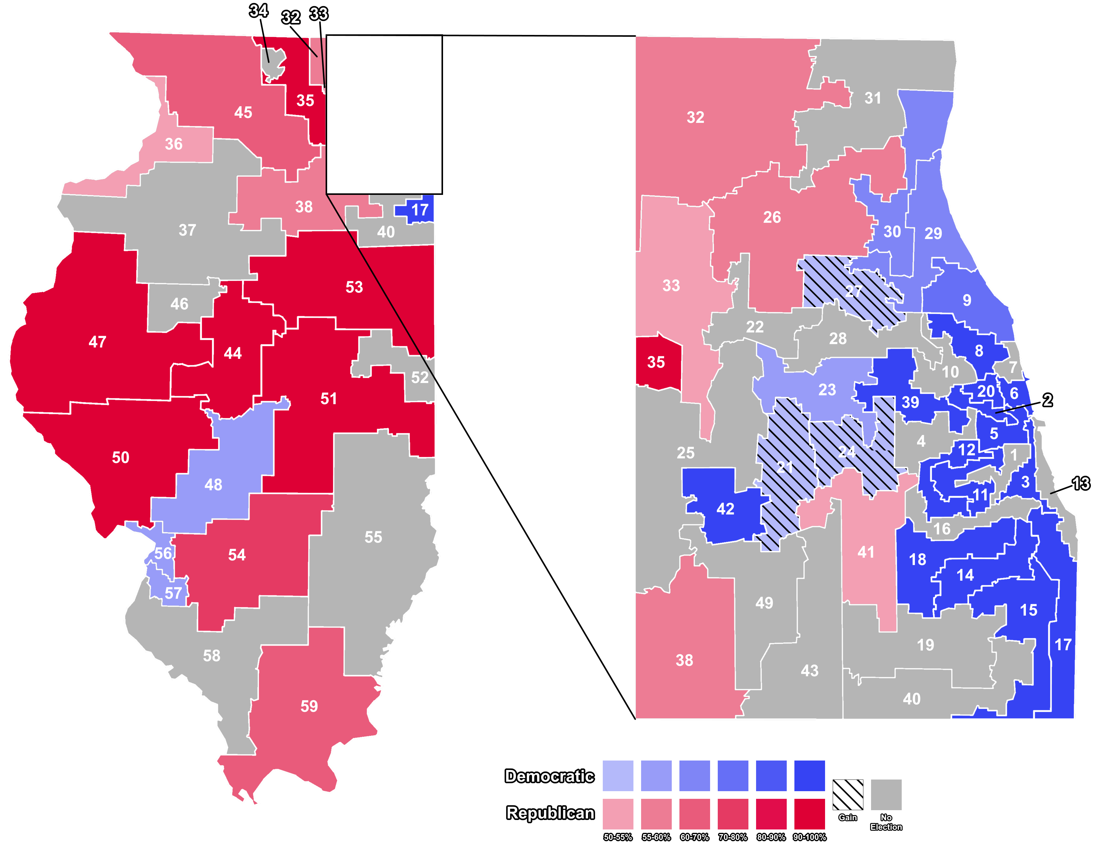 Large-scale map of the election results for state senate in Illinois. Shades of blue and red determine by how much percentage a candidate won. If it's fully red or blue, it's likely a non-contested race. Districts with lines through them are gains for the respective party it is shaded for. Grey indicates no election in the district for their State Senator.